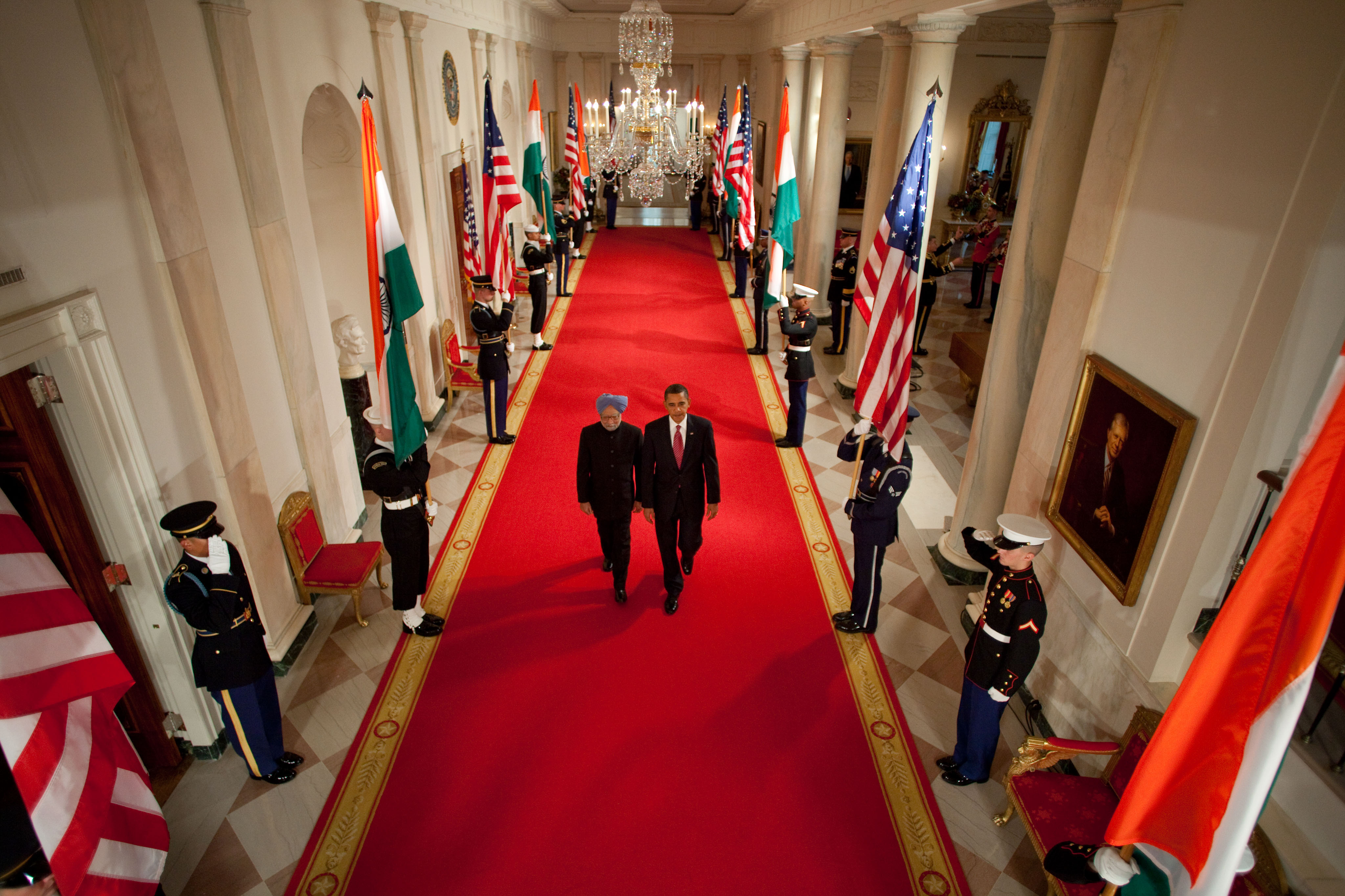 President Barack Obama and Prime Minister Manmohan Singh of India walk down the Cross Hall as the official State Arrival ceremony begins in the East Room of the White House, Nov. 24, 2009.